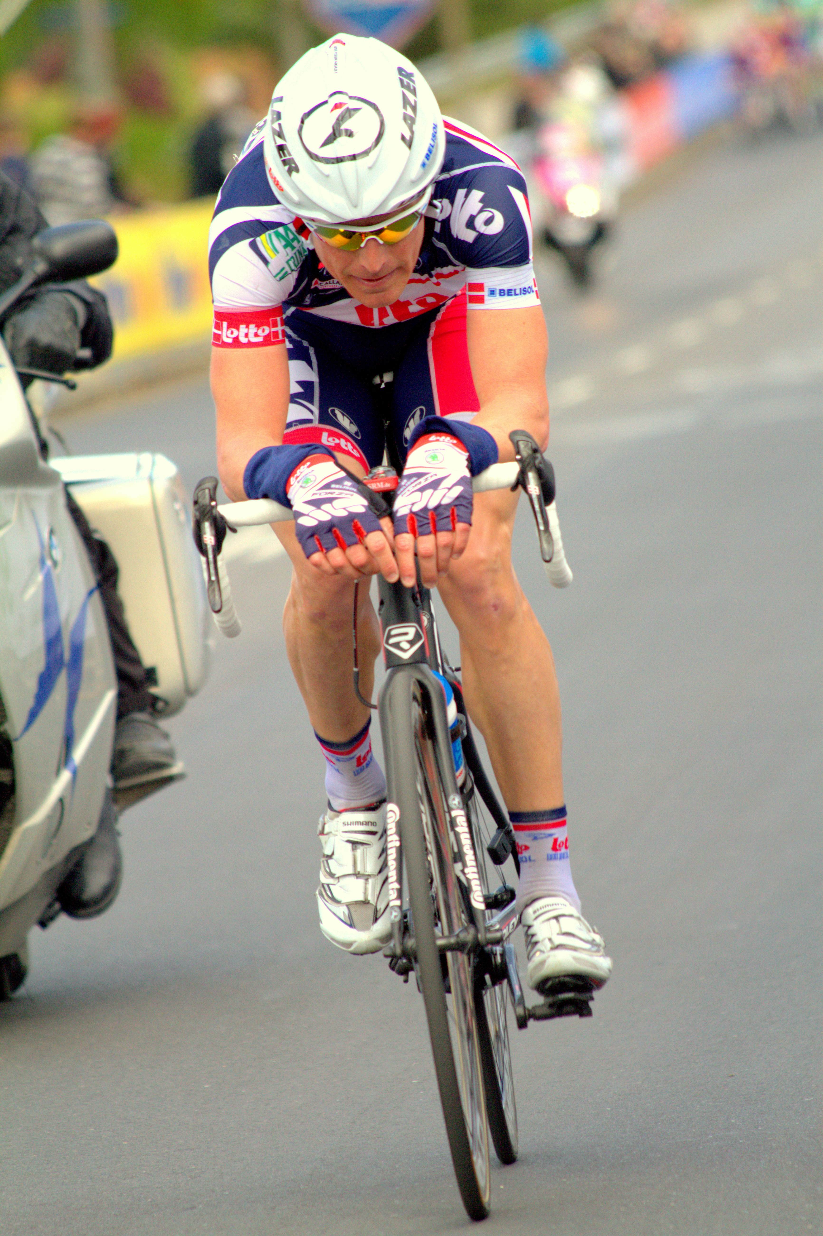 Lars Bak in a breakaway at the 2012 Giro d'Italias visit to Horsens, Denmark